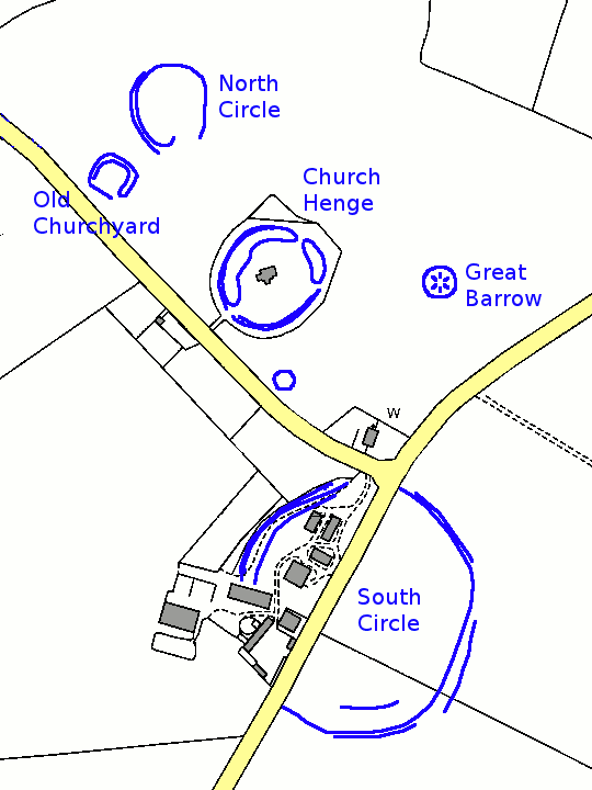 Simplified map of the Knowlton Circles henge monument in Dorset, England. Based on the Ordnance Survey Street View map, available under the Ordnance Survey OpenData Licence.